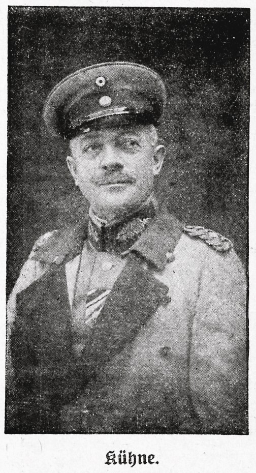 German General Viktor Kuehne (WW1)